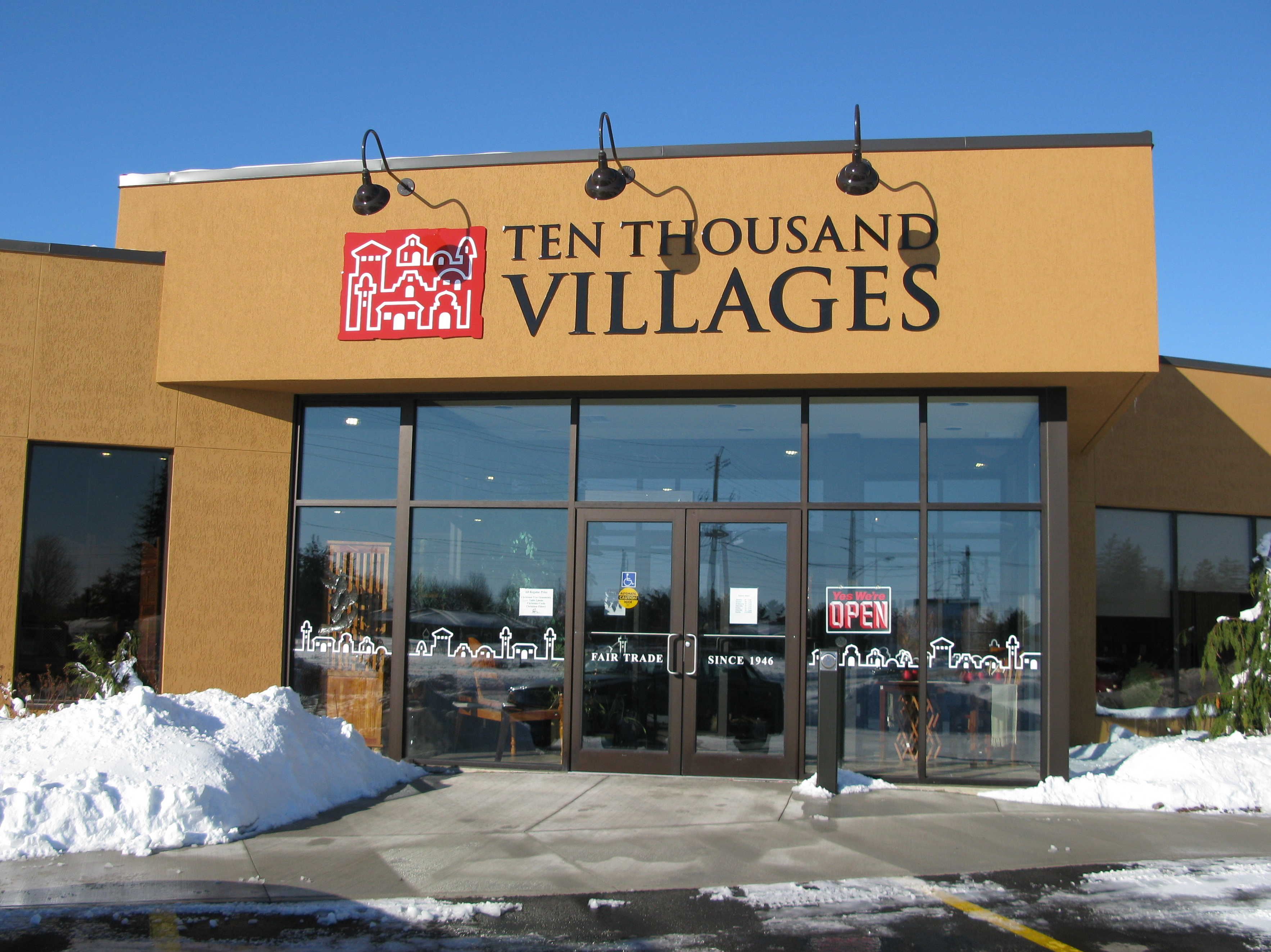 Store at Canadian headquarters of Ten Thousand Villages in New Hamburg, Ontario